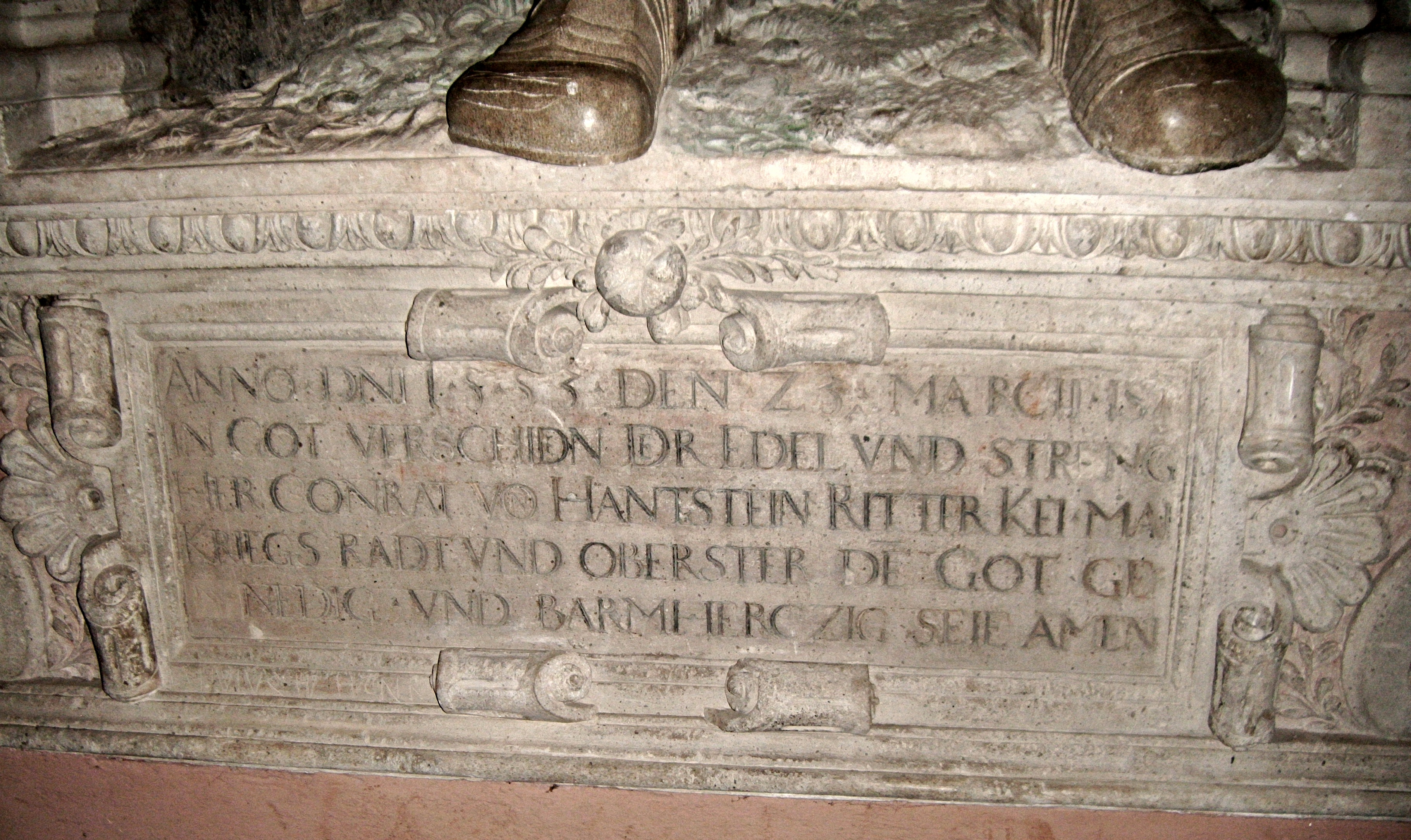 Oppenheim Katharinenkirche Epitaph des kaiserlichen Offiziers Conrad von Hanstein († 1553)